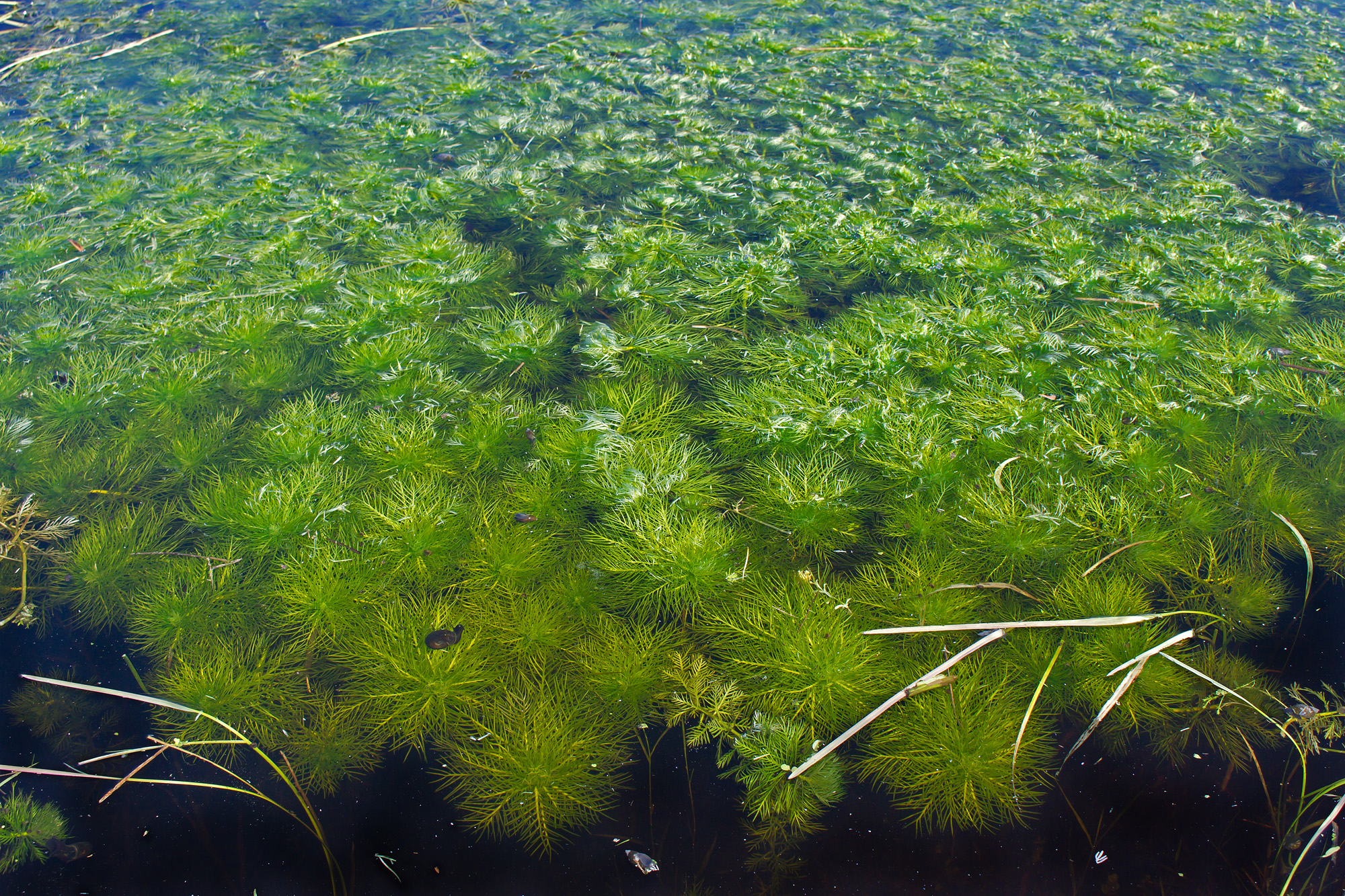 Submerged plants of Water-violets, Hottonia palustris, in early spring.